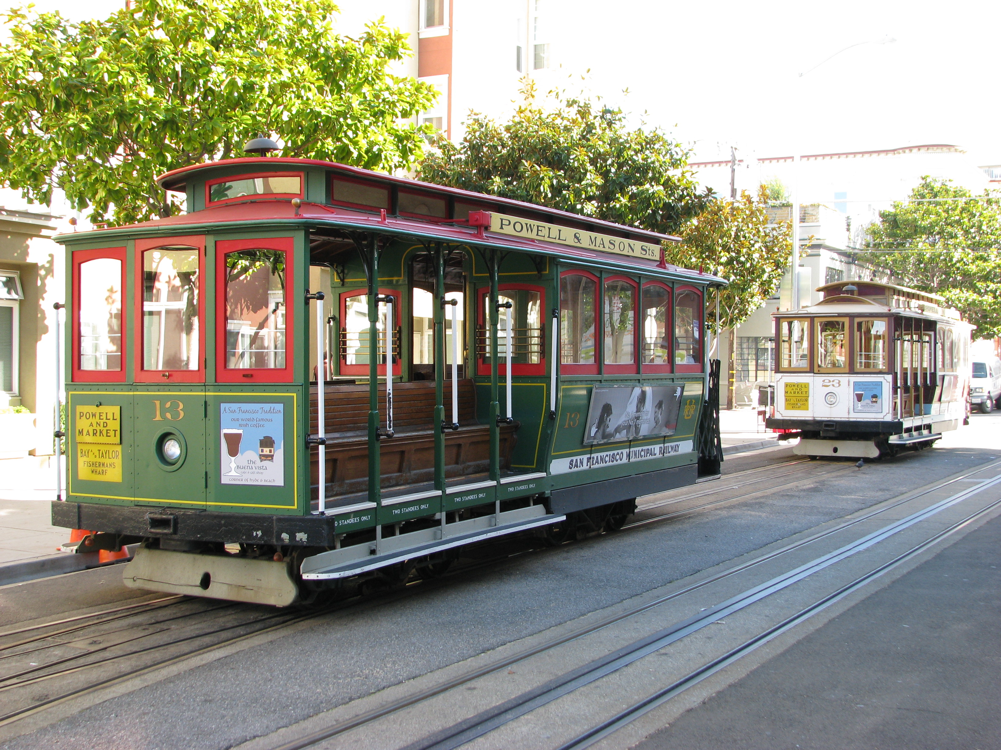 13 and #23 Cable cars on the Powell & Mason line at its northern terminus at Taylor & Bay.